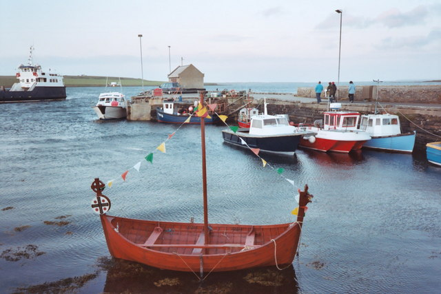 The pier at Balfour, Shapinsay, Orkney. On the left of the picture is the car ferry to Mainland, Orkney